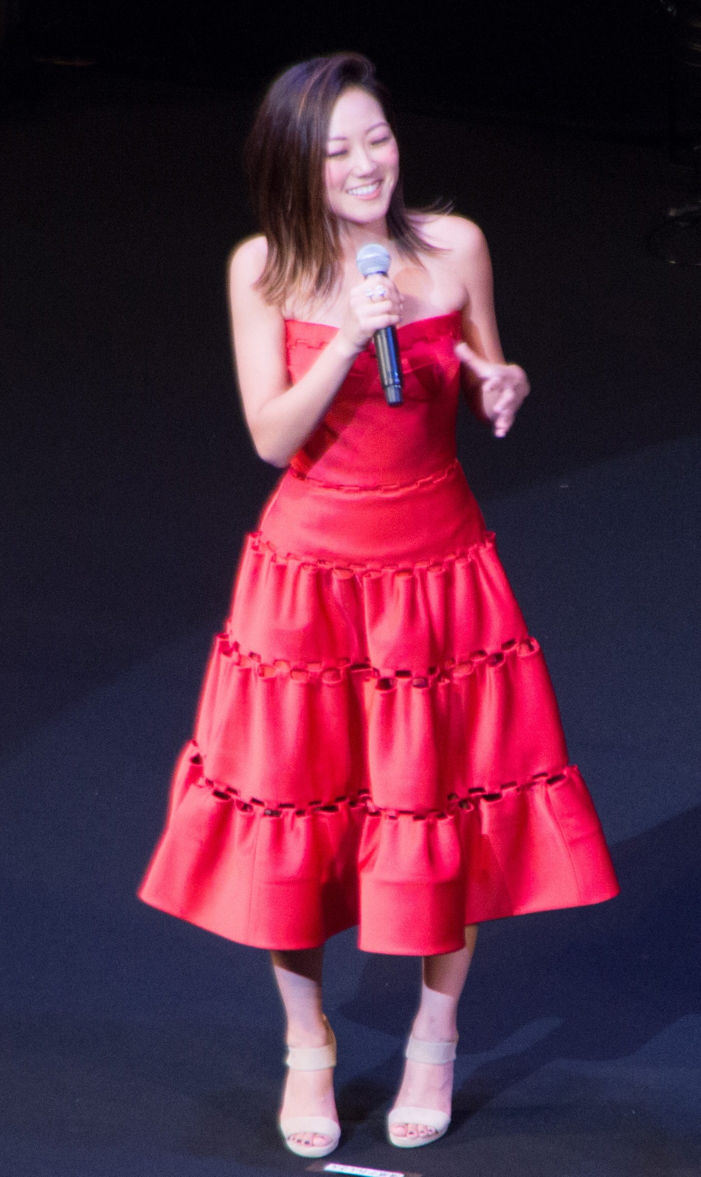 Suicide Squad Japan Premiere- Karen Fukuhara